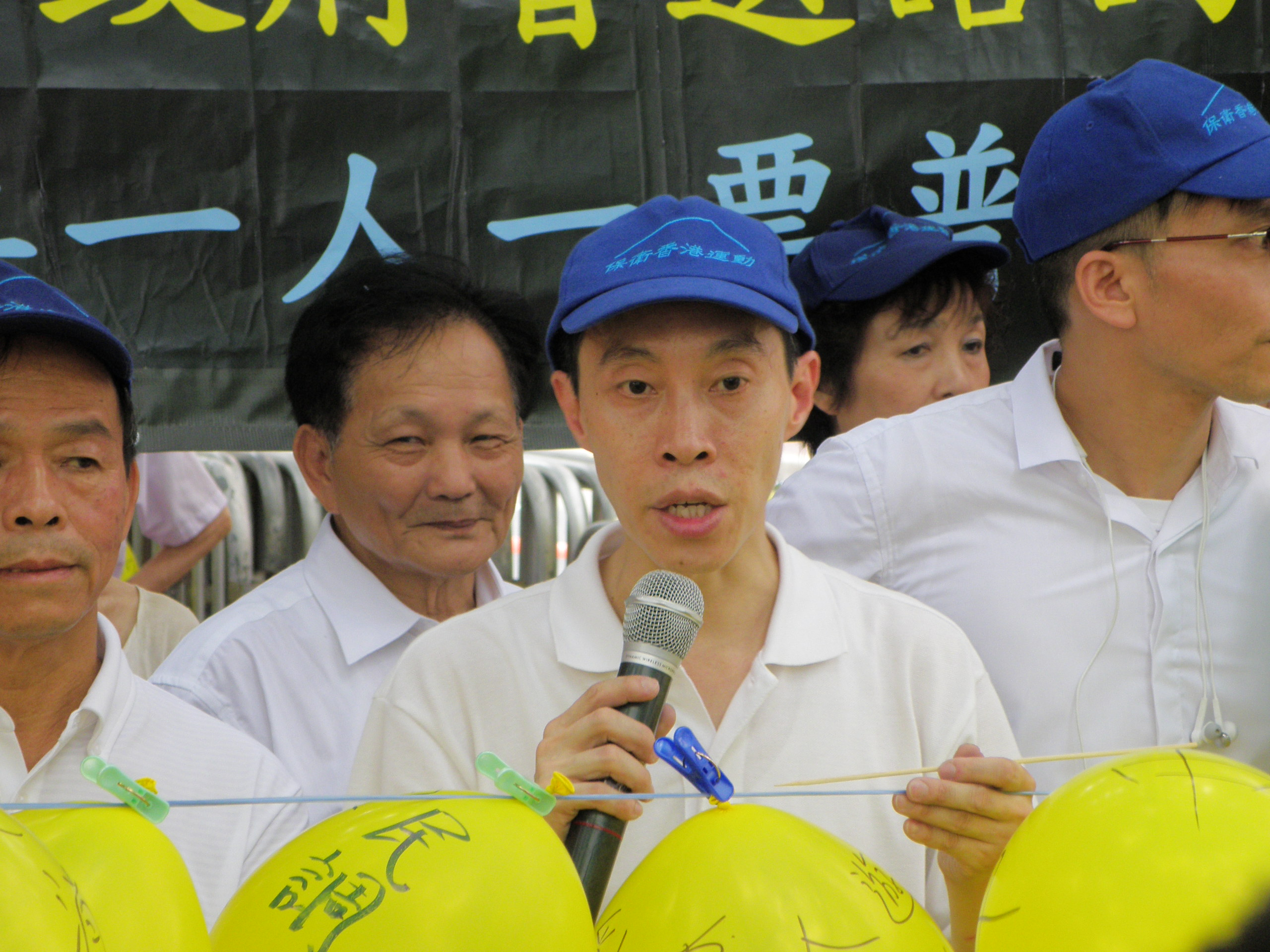 Fu Chun-chung, member of the Defend Hong Kong Campaign.